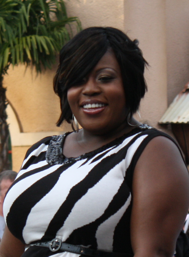 LaKisha Jones, finalist on American Idol.